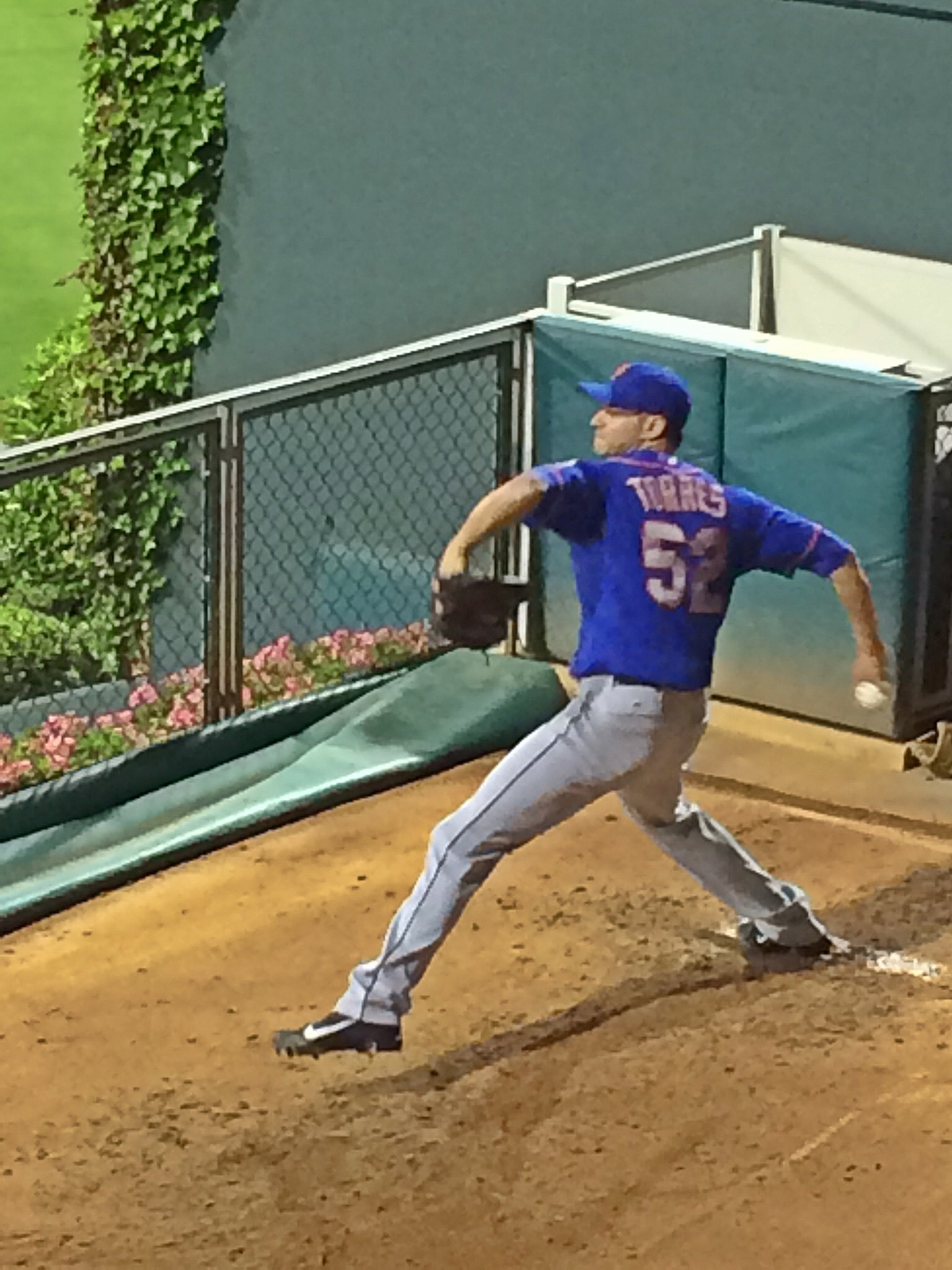 Carlos Torres warming up in bullpen at Citizens Bank Park